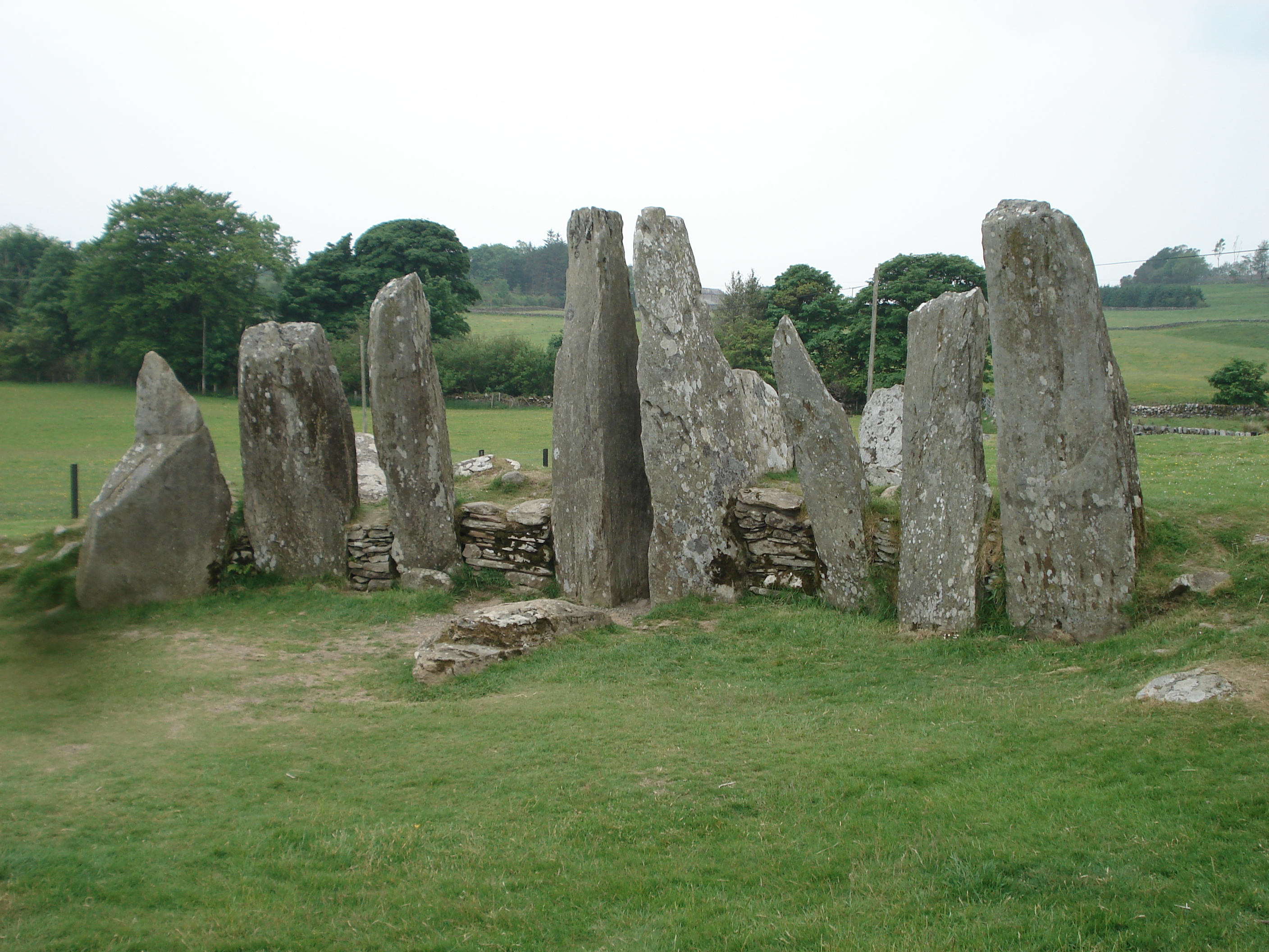 The remains of the curving facade of the "Cairn Holy I" chambered cairn. Near Creetown, Kirkcudbrightshire, Scotland. The site is maintained by Historic Scotland